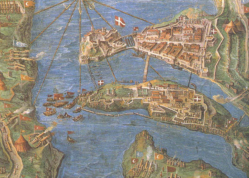 Detail from "The Siege of malta Fresco"